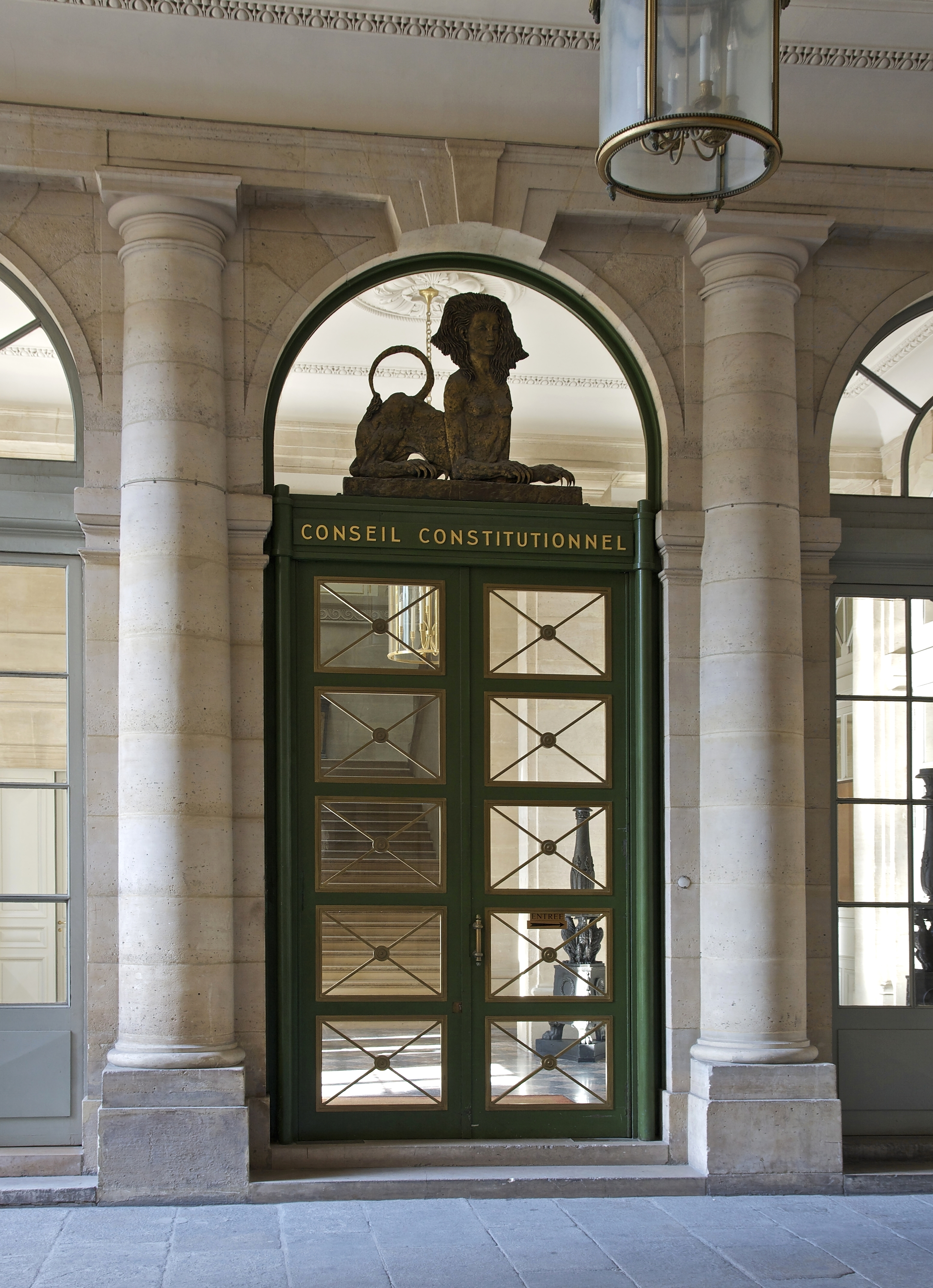 The main entrance of the French Constitutional Council, Palais-Royal, Paris, France.